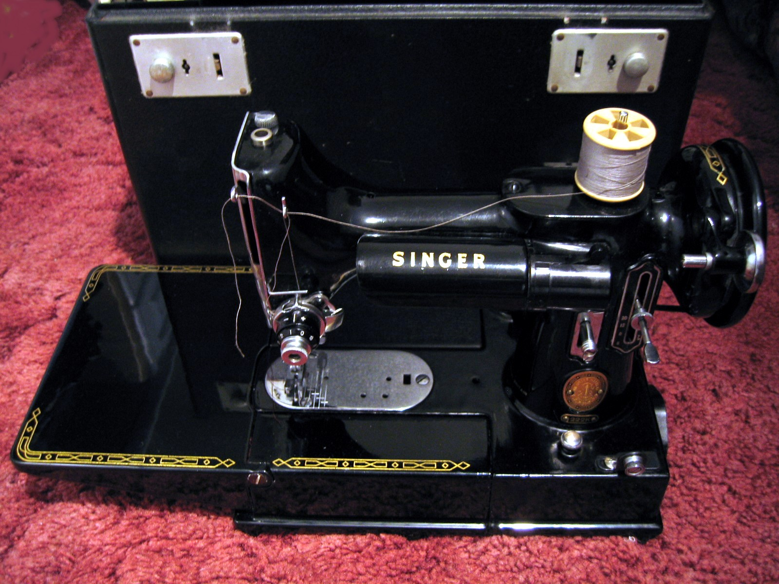 A Singer Featherweight model 222k made in 1954 Constructed in alloy, very light and still in use.